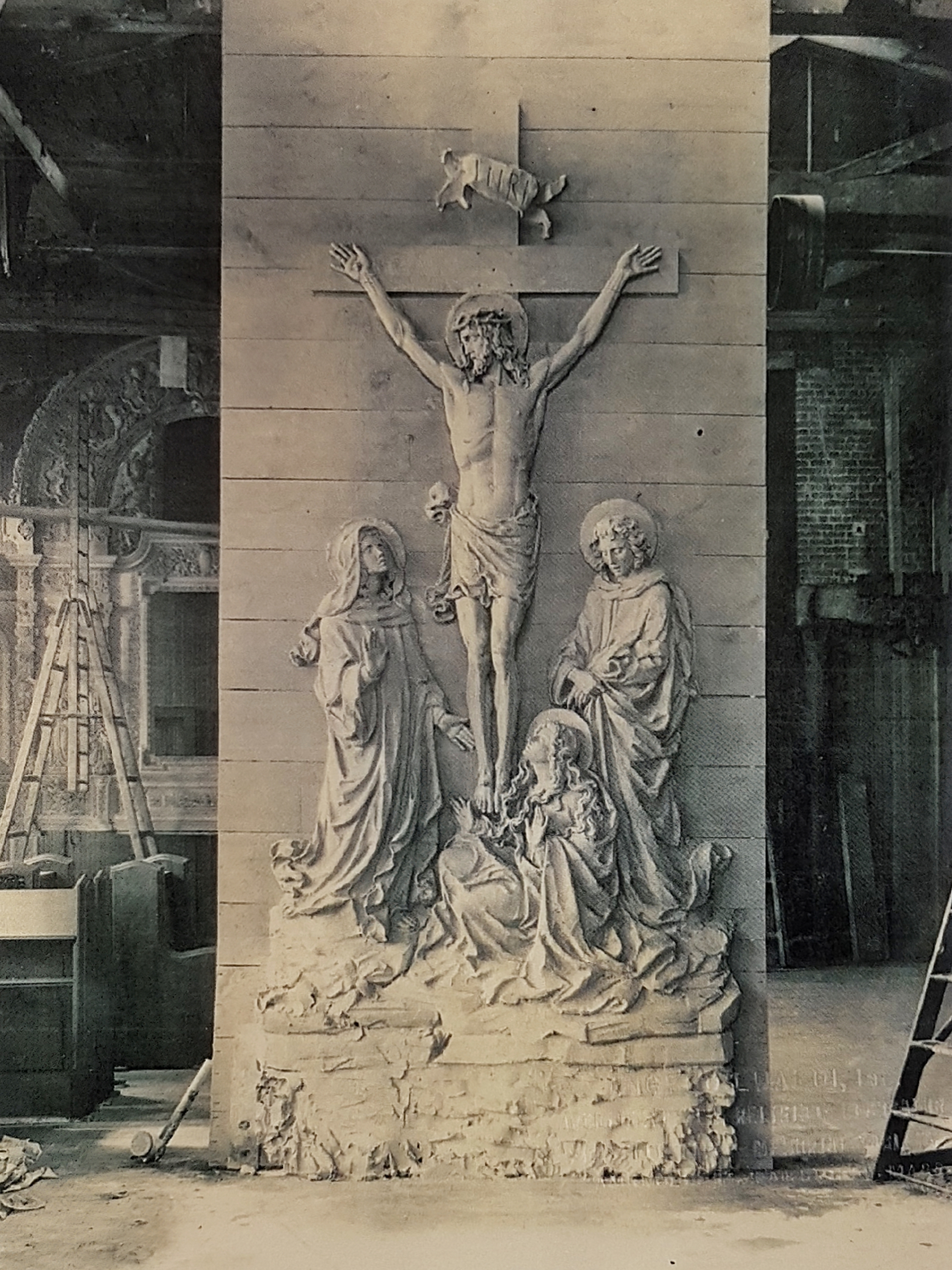 Clay model of the central panel Altar Maggiore LA in the studio of Angelo Lualdi. The altar in the St. Vincent de Paul Church (Los Angeles) was built in 1925, so the model must be older.